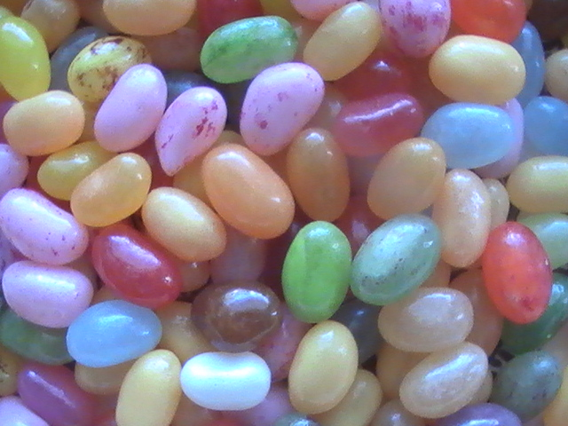 Sweet jelly beans manufactured by Continental Candy Industries. The company's headquarters is in Drachten, Netherlands.